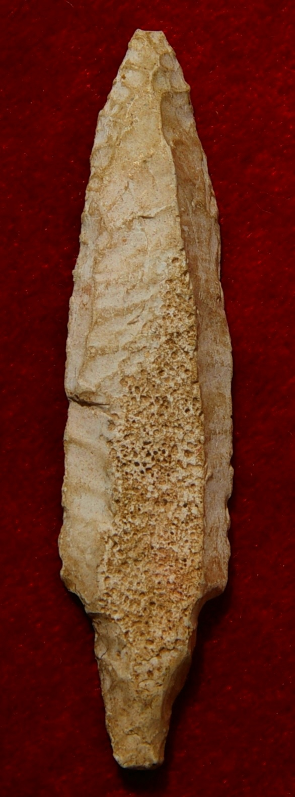 Neolithic flint arrow head found in Rogestorps mossen (Rogestorp bog) in Luttra parish the year 1940, 4 km south of Falköping, Falköping municipality, former Skaraborg county, Västergötland, Västra Götaland county, Sweden.